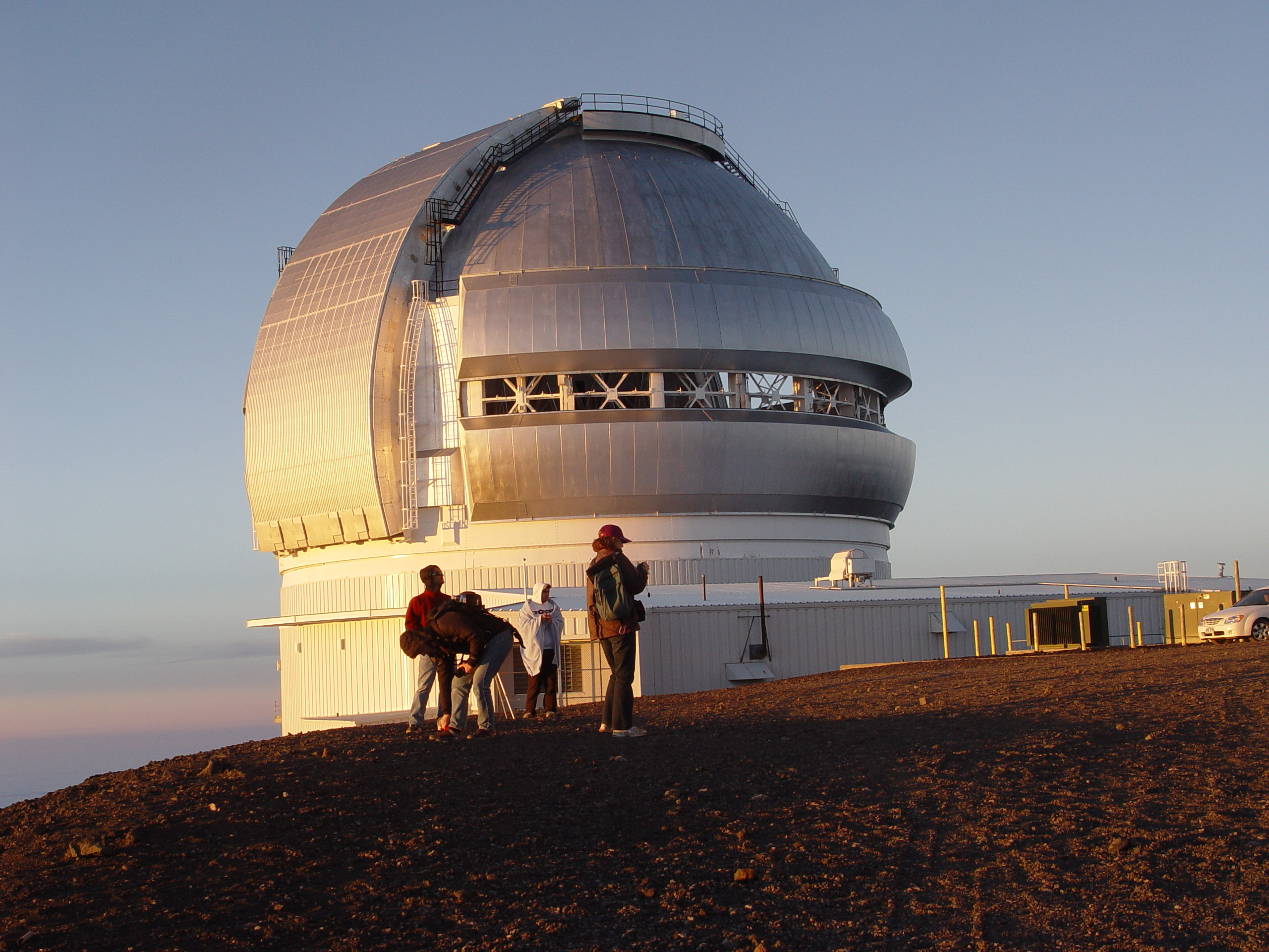 Gemini North at sunset on top of Mauna Kea.